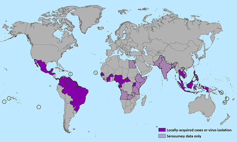 Centers for Disease Control and Prevention map of the geographic distribution of Zika virus as of 15 January 2015